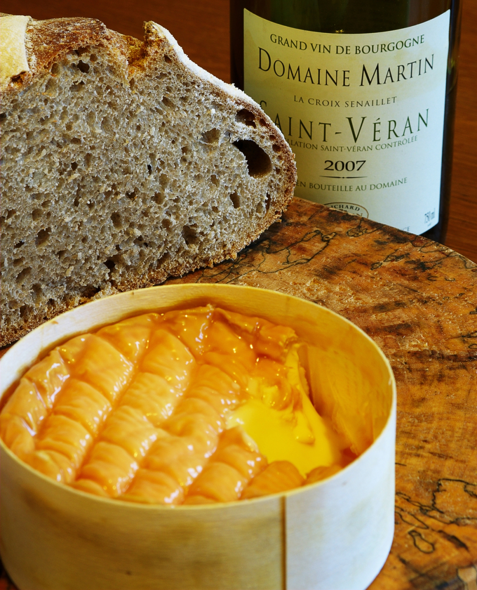 Époisses de Bourgogne cheese and white wine with home-made naturally leavened (sourdough) bread.